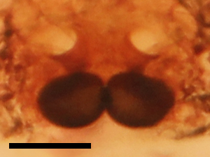 Epigyne of female Zygoballus sexpunctatus jumping spider from Greenville County, South Carolina, United States (under clove oil, ventral view). Scale equals 0.1 mm.